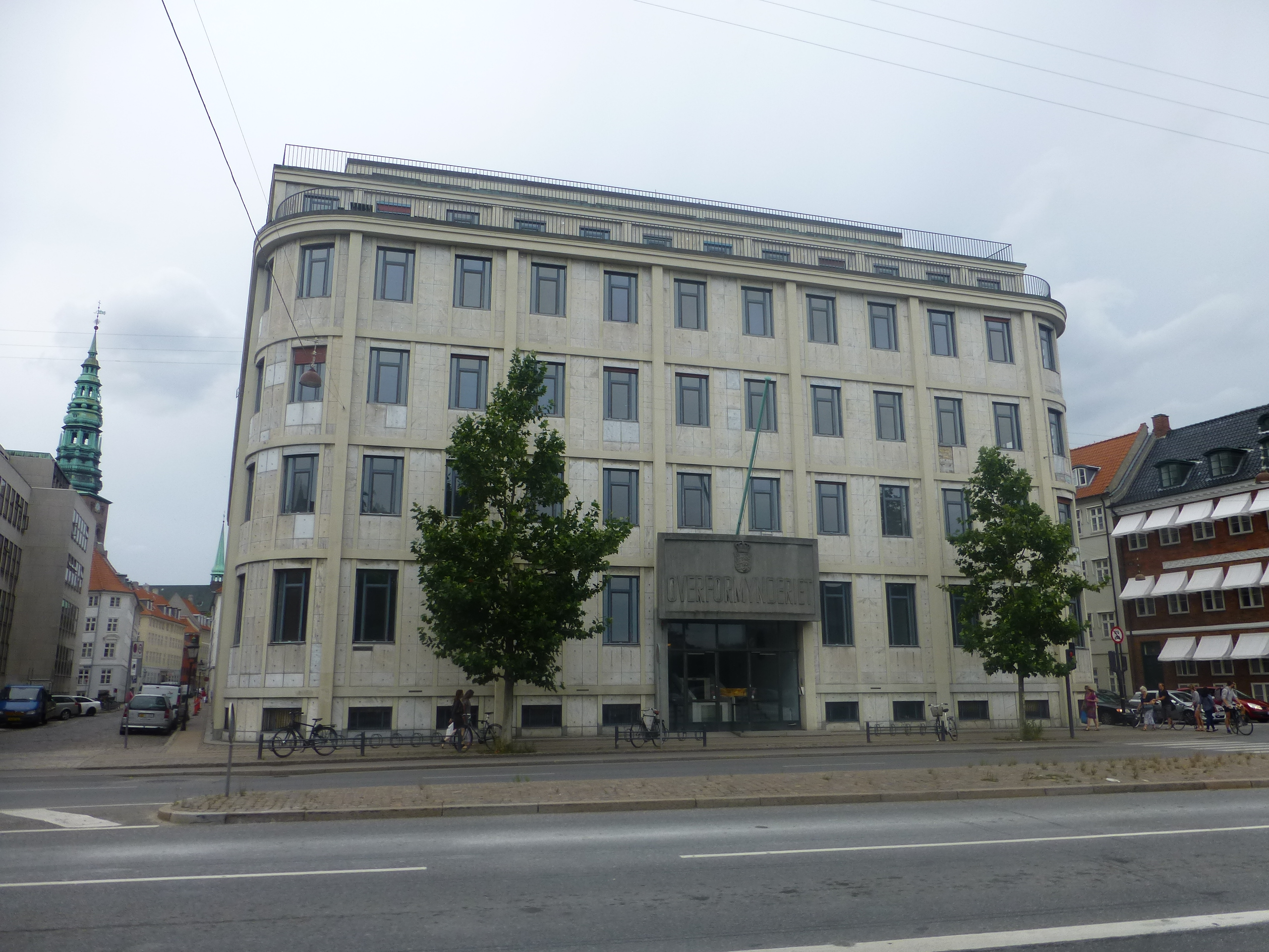 The office building belonging to the government institution Arbejdsmarkedsstyrelsen on Holmens Kanal in Copenhagen. As the sign above the entrance tell, the building former belonged to another government institution, Overformynderiet.